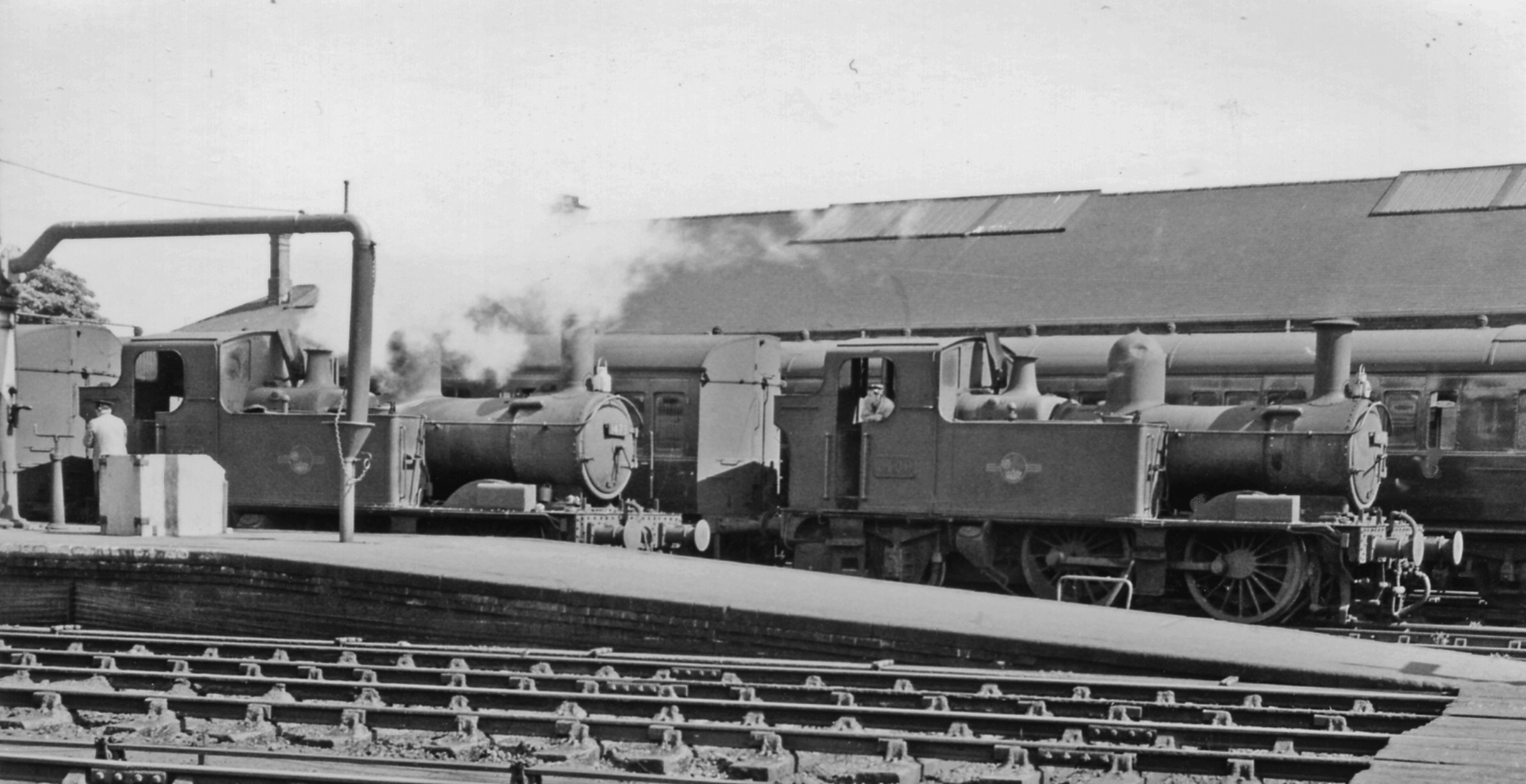 Auto-fitted GW 0-4-2Ts at Gloucester (Central) Station. View from the main Down platform of the Up bays at the east end of the Station, with two Collett 0-4-2Ts employed on the auto-train service to Chalford: No. 1473 (built 4/36 as No. 4873) and No. 1409 (built 10/32 as No. 4809); both were renumbered in 11/46; No. 1473 was withdrawn in 8/62, No. 1409 in 10/63.